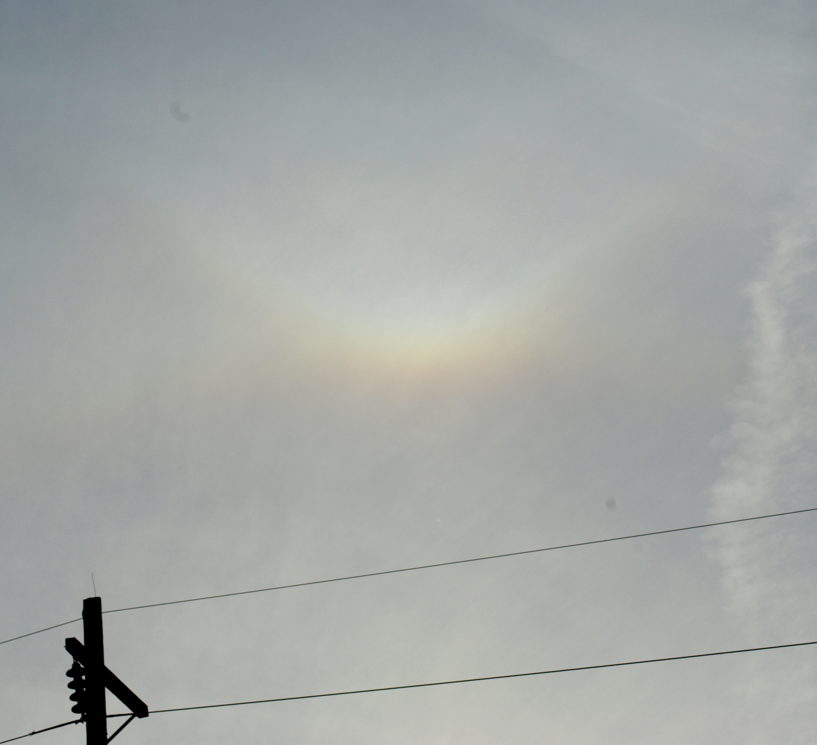 Upper tangent arc, New Mexico, enhanced a little (I hope)